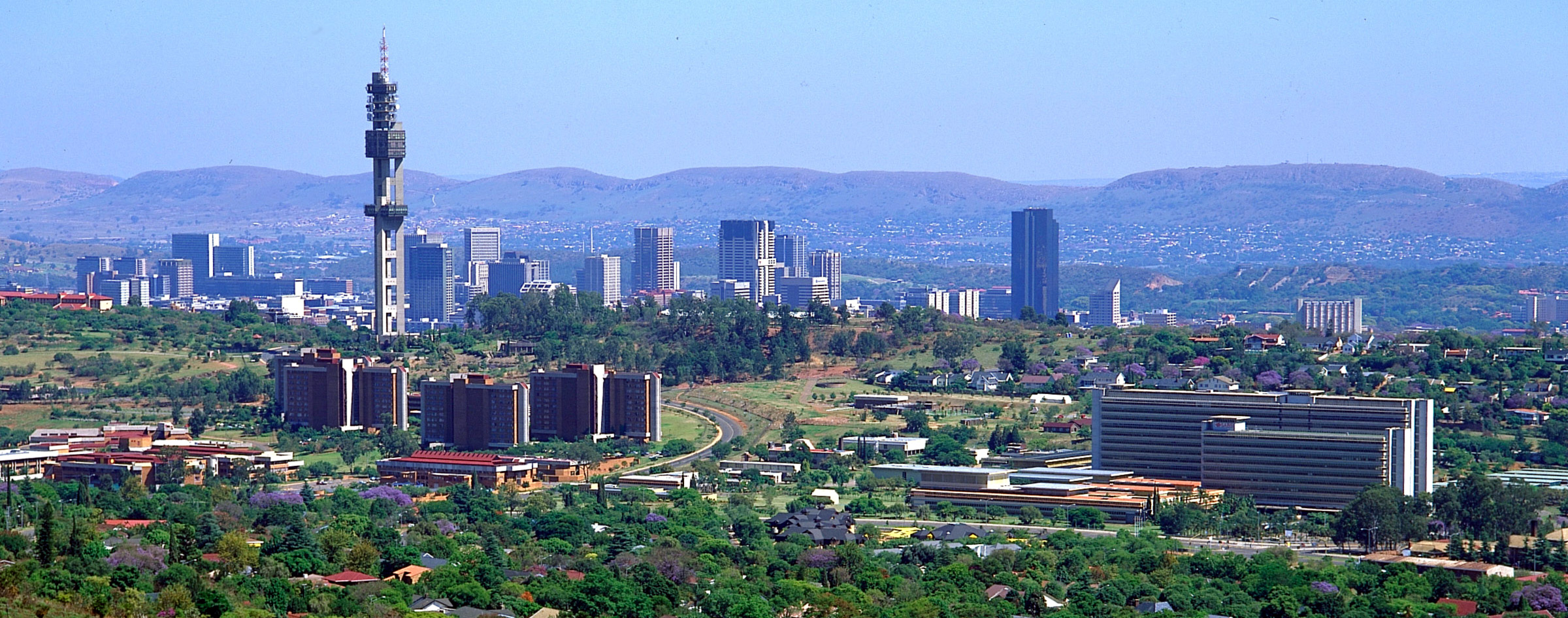 Taken from Klapperkop above Groenkloof November 2003